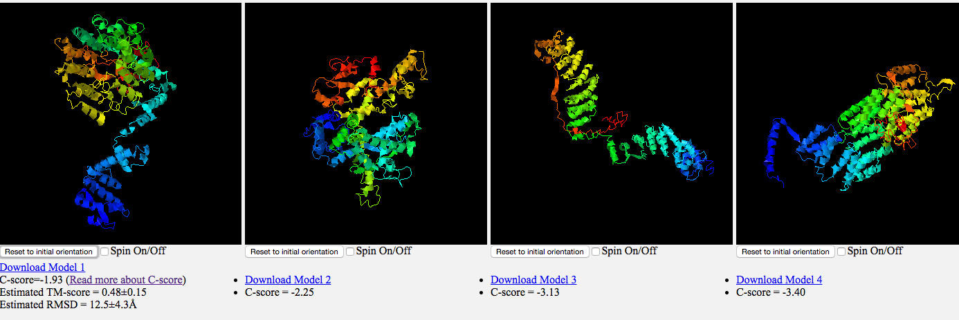 Four possible secondary structures predicted by iTASSER software.